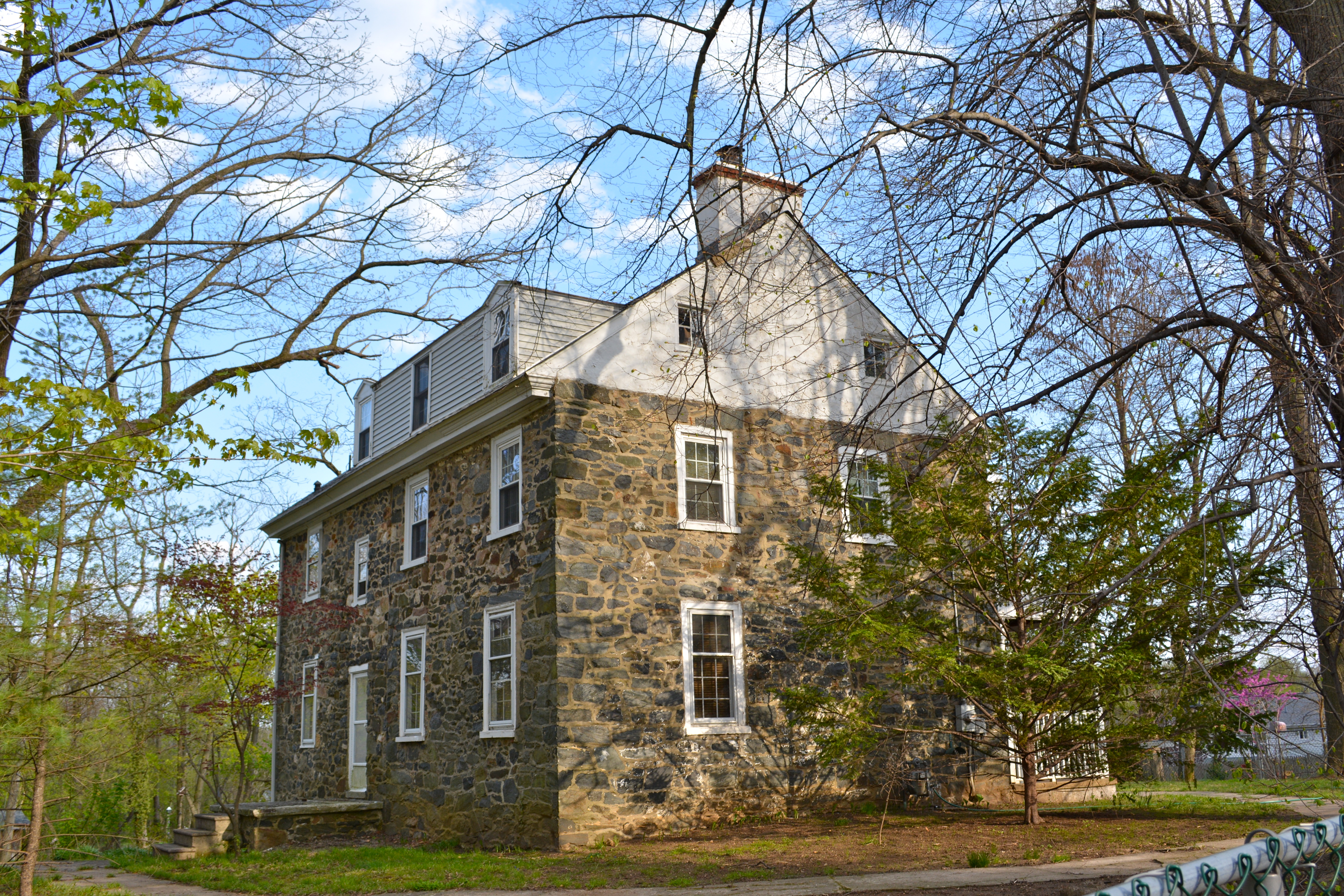 Springer-Cranston House, listed on the NRHP on September 30, 1994 (#94001177) at 1015 Stanton Rd. in Mill Creek Hundred 39°43′33″N 75°38′19″W Marshallton, Delaware